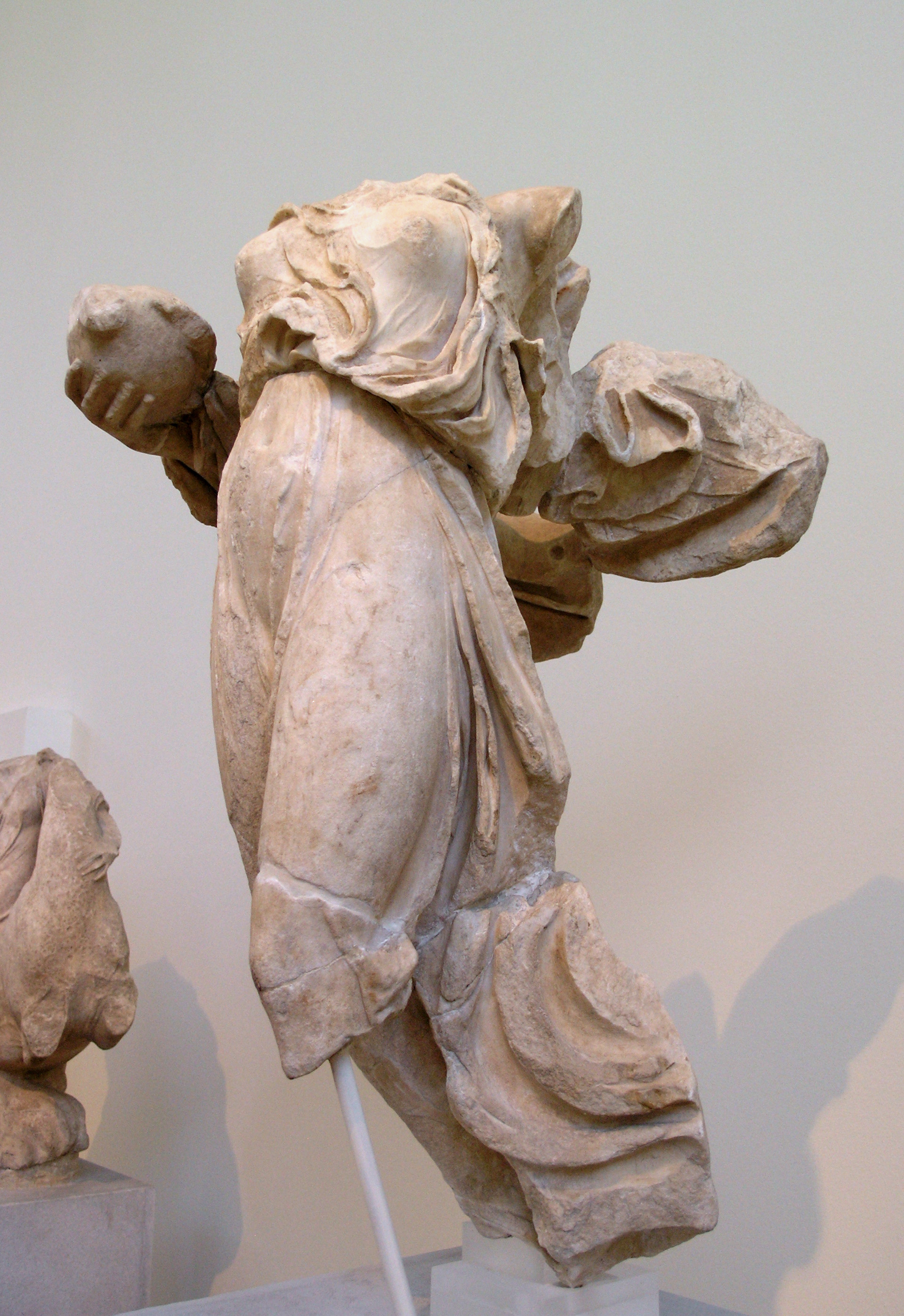 Statue of Nike. The statue was the central akroterion on the west pediment of the temple of Asklepios. Nike is depicted flying with her dress billowing in the wind behind her. In her right hand she holds a partridge, a symbol of the healing power of Asklepios.